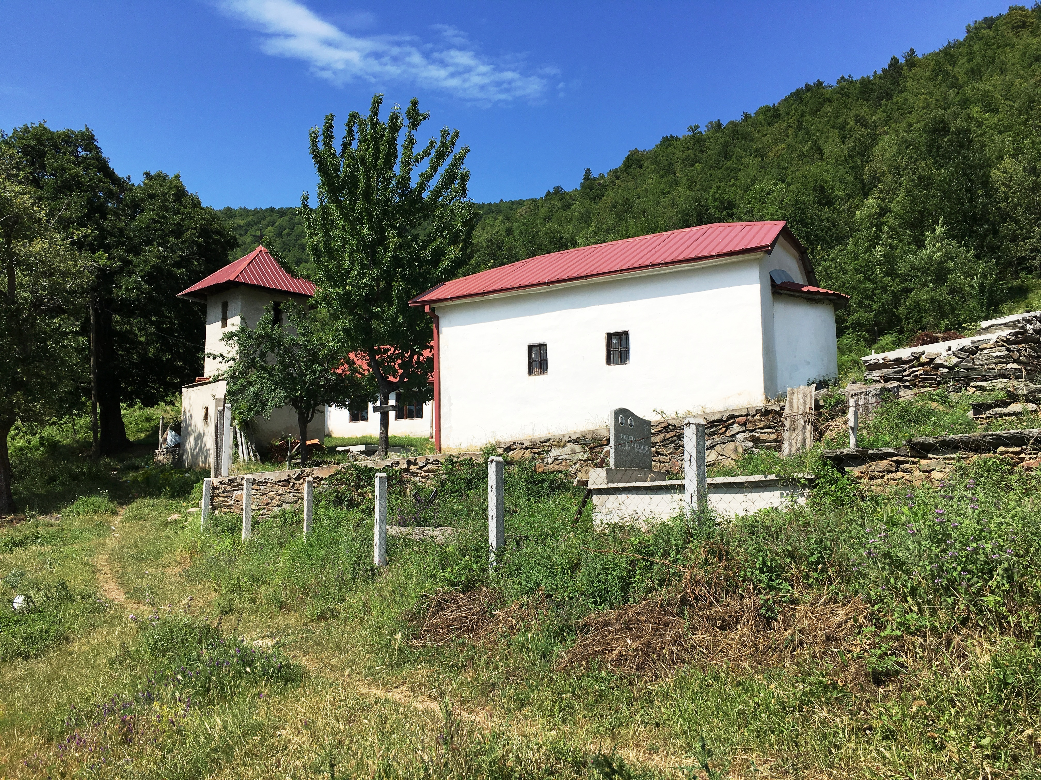 St. George Church in the village of Kosovo